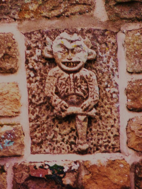 The Lincoln Imp This carved stone is built into the gable end of a garage, at Mackeridge House, Church Houses, Farndale. It was carved locally, and was built into the new garage in 2002. It is close to the road as you walk up the bank above the church.